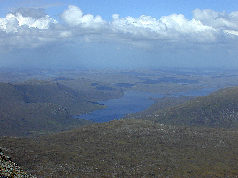 View north from An Cliseam. Looking towards Loch Langabhat and the uninhabited expanses beyond.